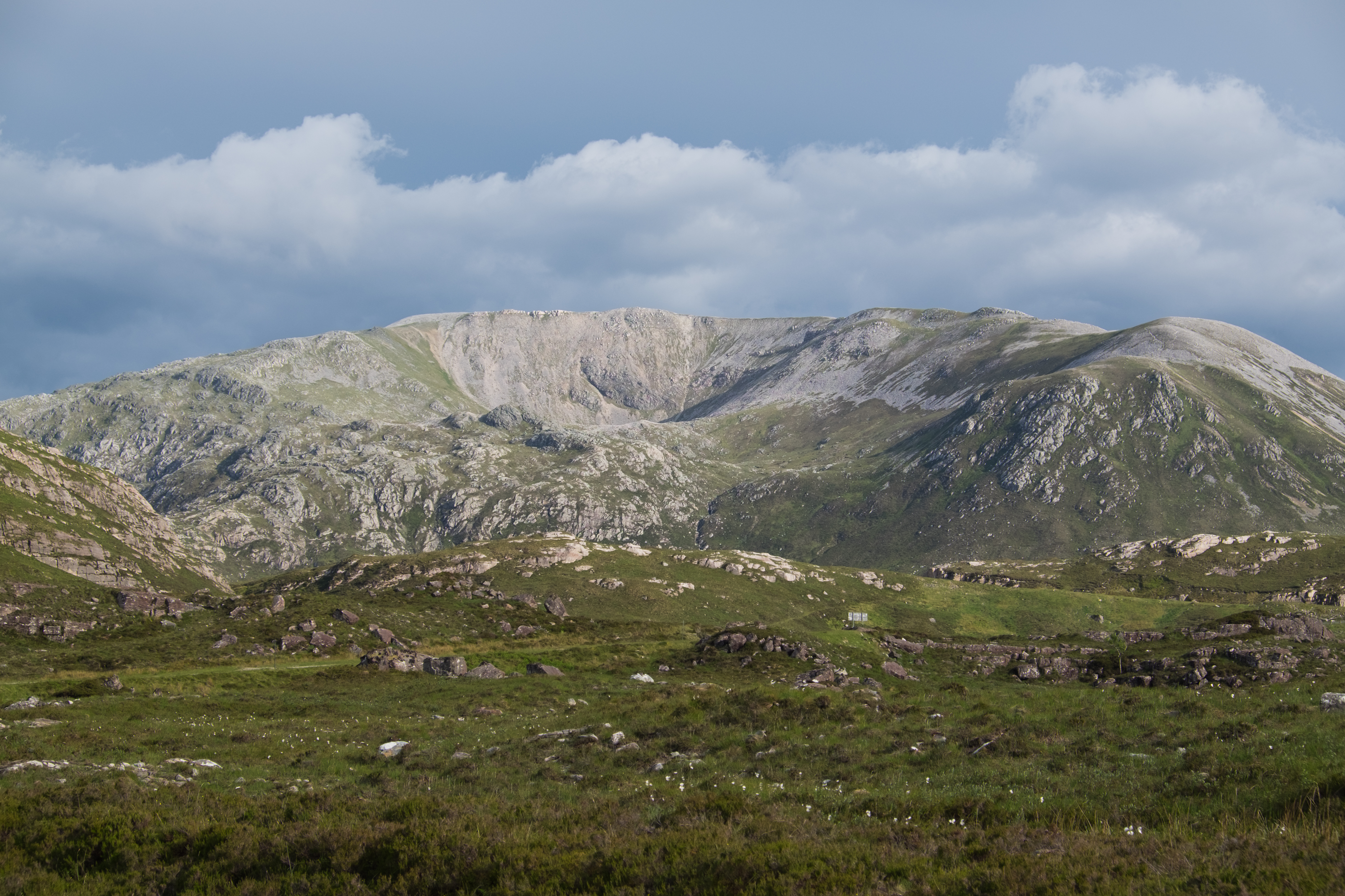 Glas Bheinn, Assynt - a 776-metre-high mountain in the North Highlands of Scotland, one of the Corbetts. The Corbetts are Scottish mountains that are 2500–3000 feet (762.0–914.4 metres) high with a relative height of 500 feet (152.4 metres).